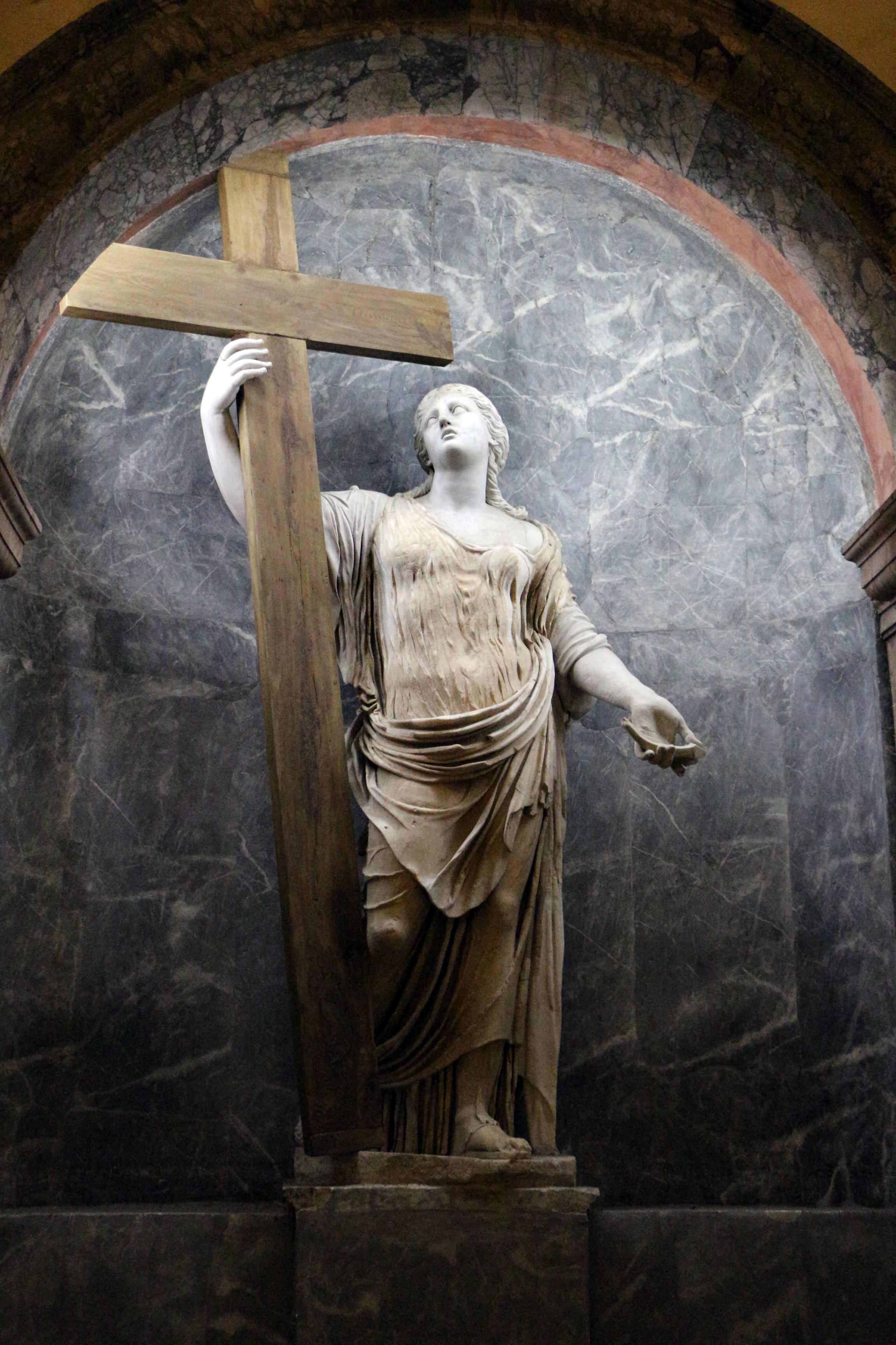 Santa Croce in Gerusalemme (Rome) - Saint Helen Chapel